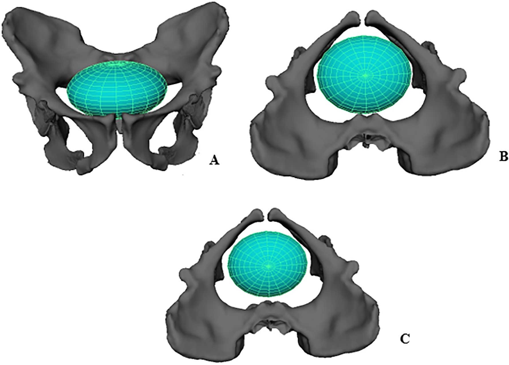 Ellipse representing a neonatal A. sediba head at the pelvic. A. inlet, frontal view B. inlet, superior view C. midplane, superior view. Reconstructed pelvis is shown with the MH1 ischium. Notice that the modeled A. sediba neonatal cranium can descend into the midplane without bony constraints, unlike the condition typically found in modern humans.